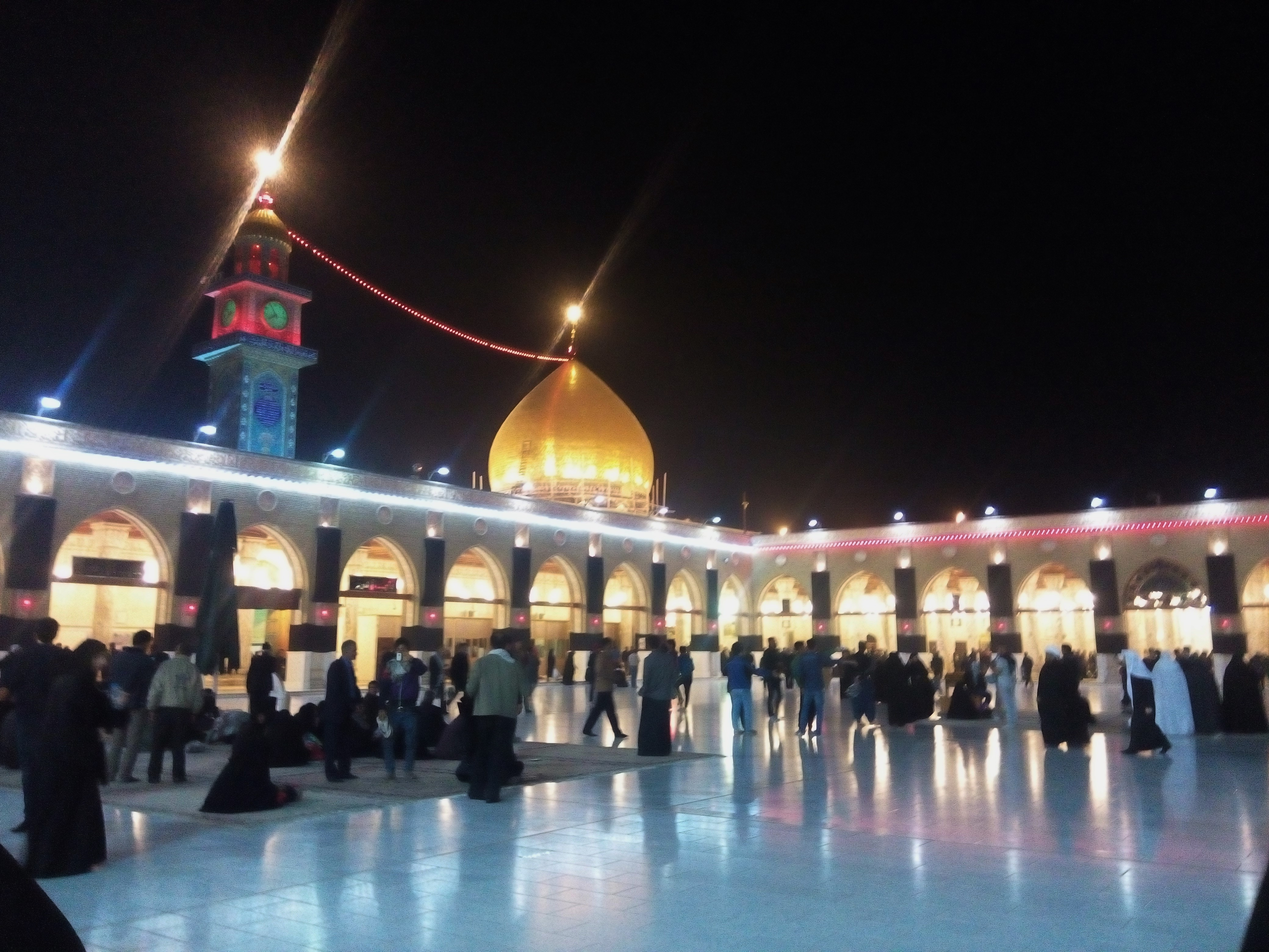 Great Mosque of Kufa.